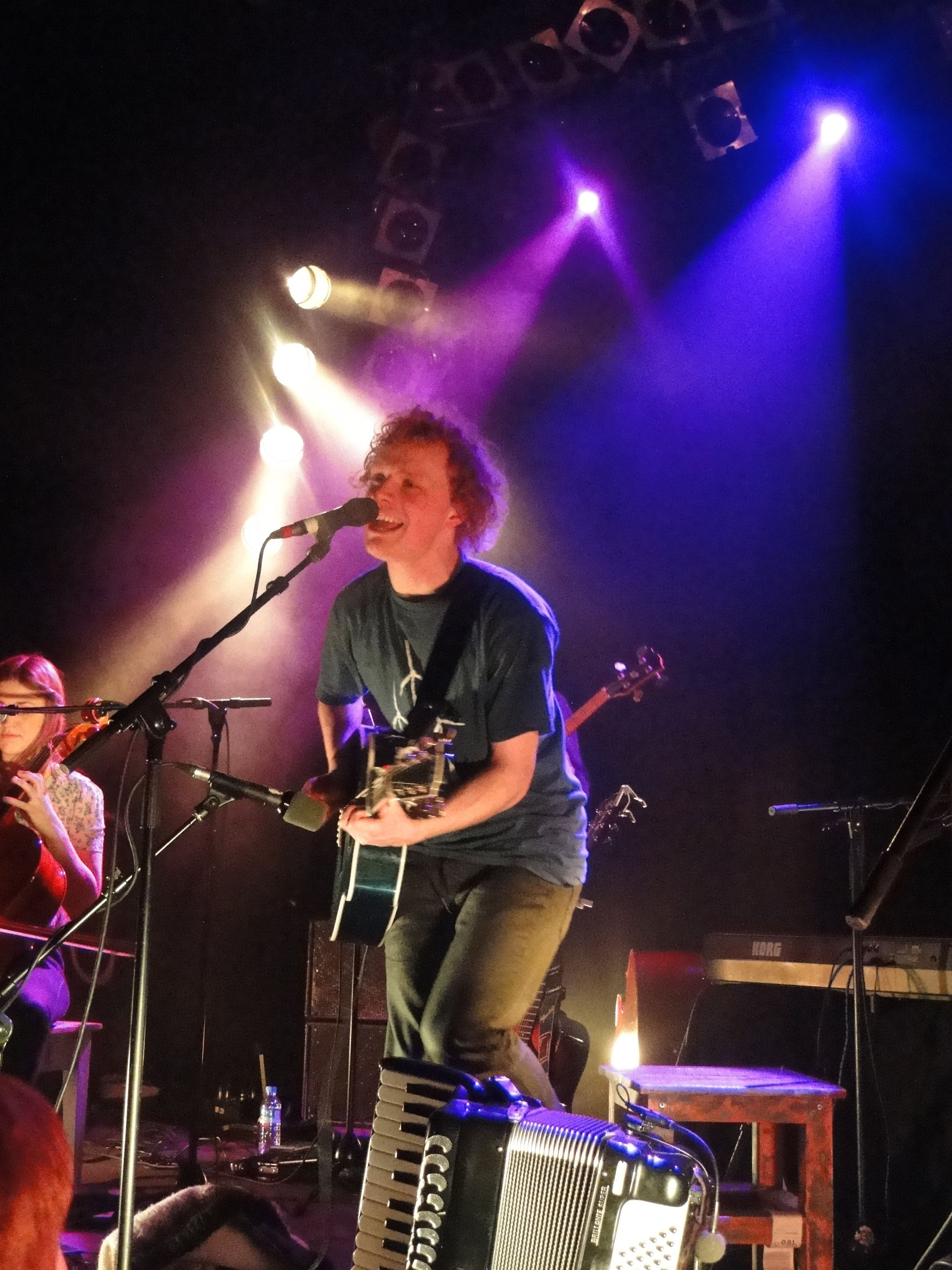 Moddi at "Knust", Hamburg, Germany, February 2011